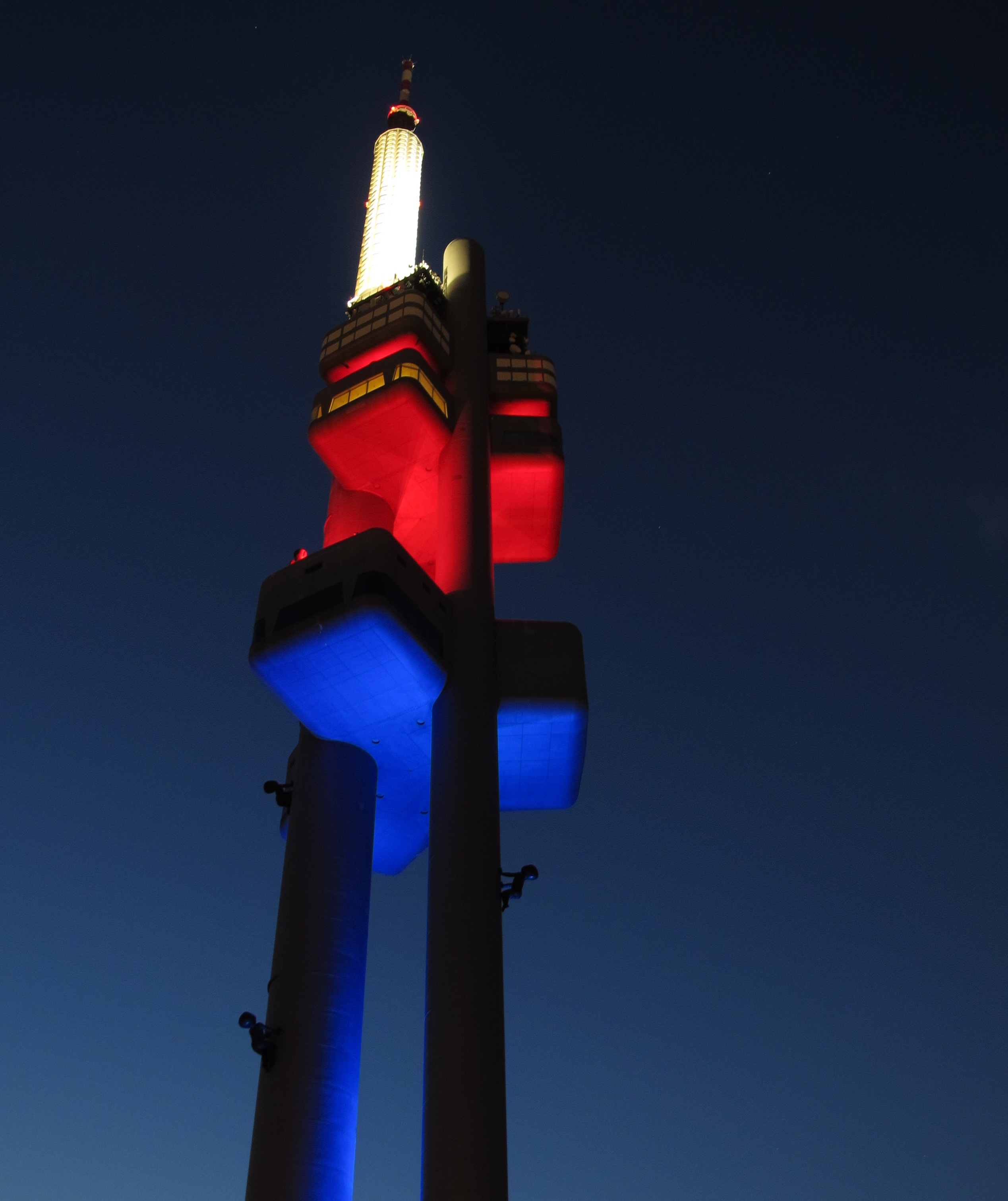 Žižkov television tower with baby statues by David Černý, Prague